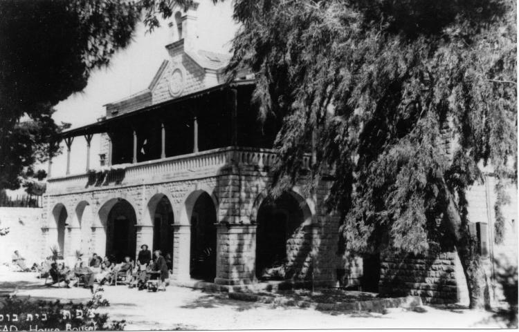 Beit Bussel. Safed. Originally a Mission Hospital, later purchased by the JNF and used as Yiftach Brigade headquarters during the 1948 war.